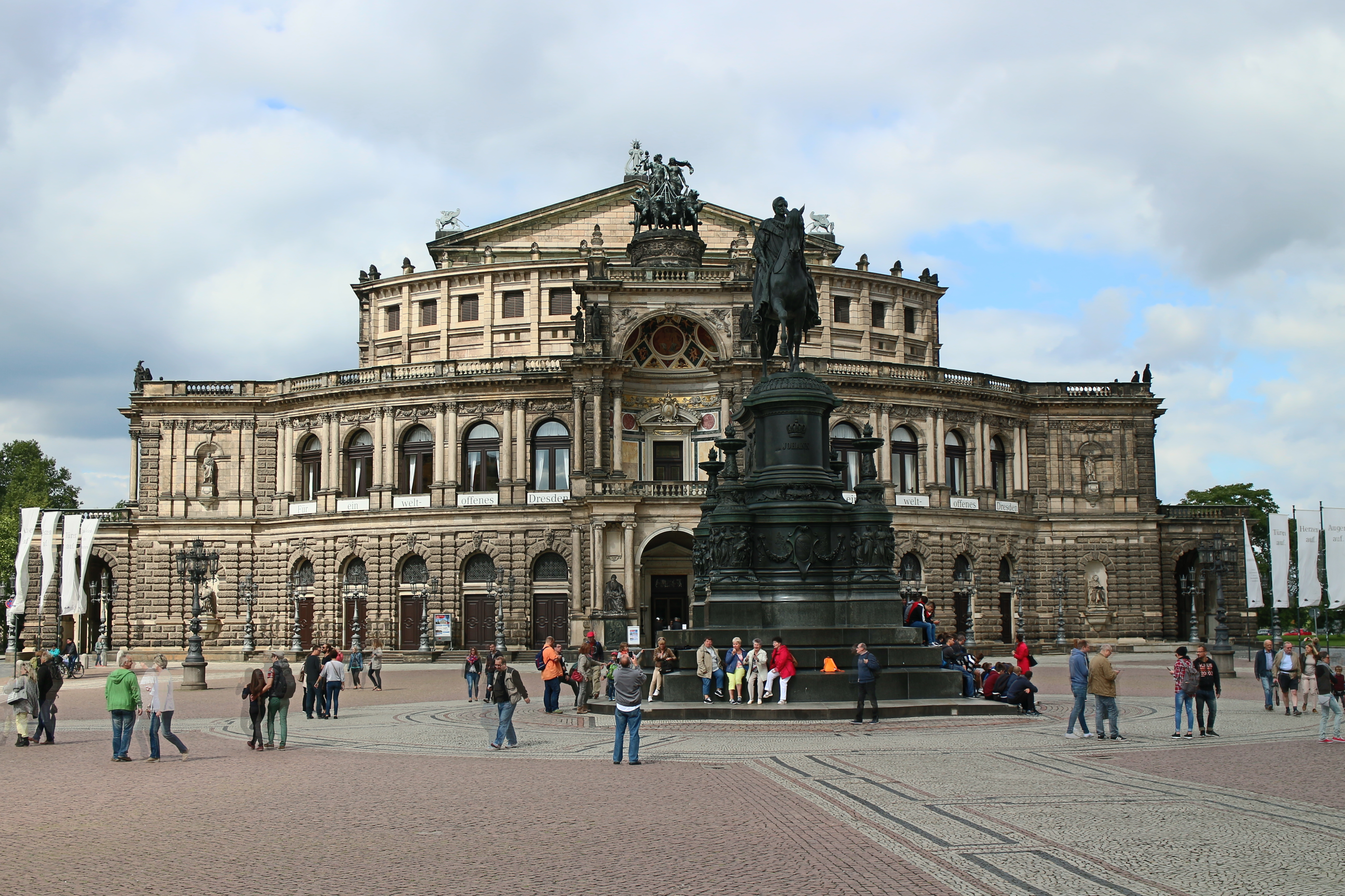 Semperoper